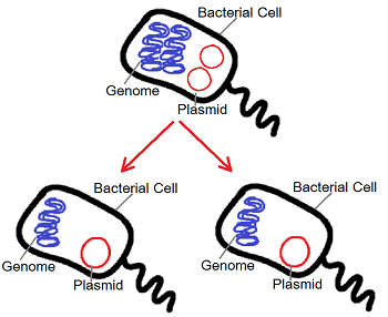 Bacterial cell division depicting daughter cells receiving both a copy of the chromosome and a copy of a plasmid.